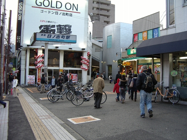 Hinodechou station on Keikyu-Main line.